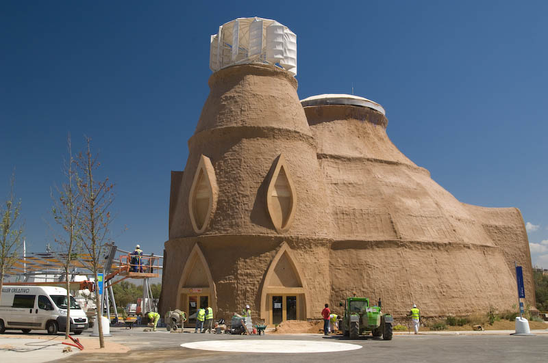 This is a photo of the pavilion "el faro" from the 2008 Expo in Zaragoza Spain. It shows the final stage of construction bevore the Expo opened its doors. ECODES was heavely involved in coordinating and managing the building and organization of the "el faro project".